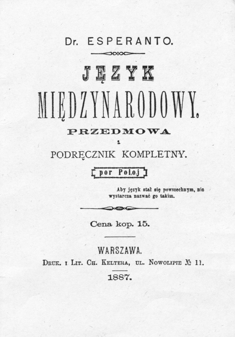 The International Language for Poles—the first Polish textbook of Esperanto